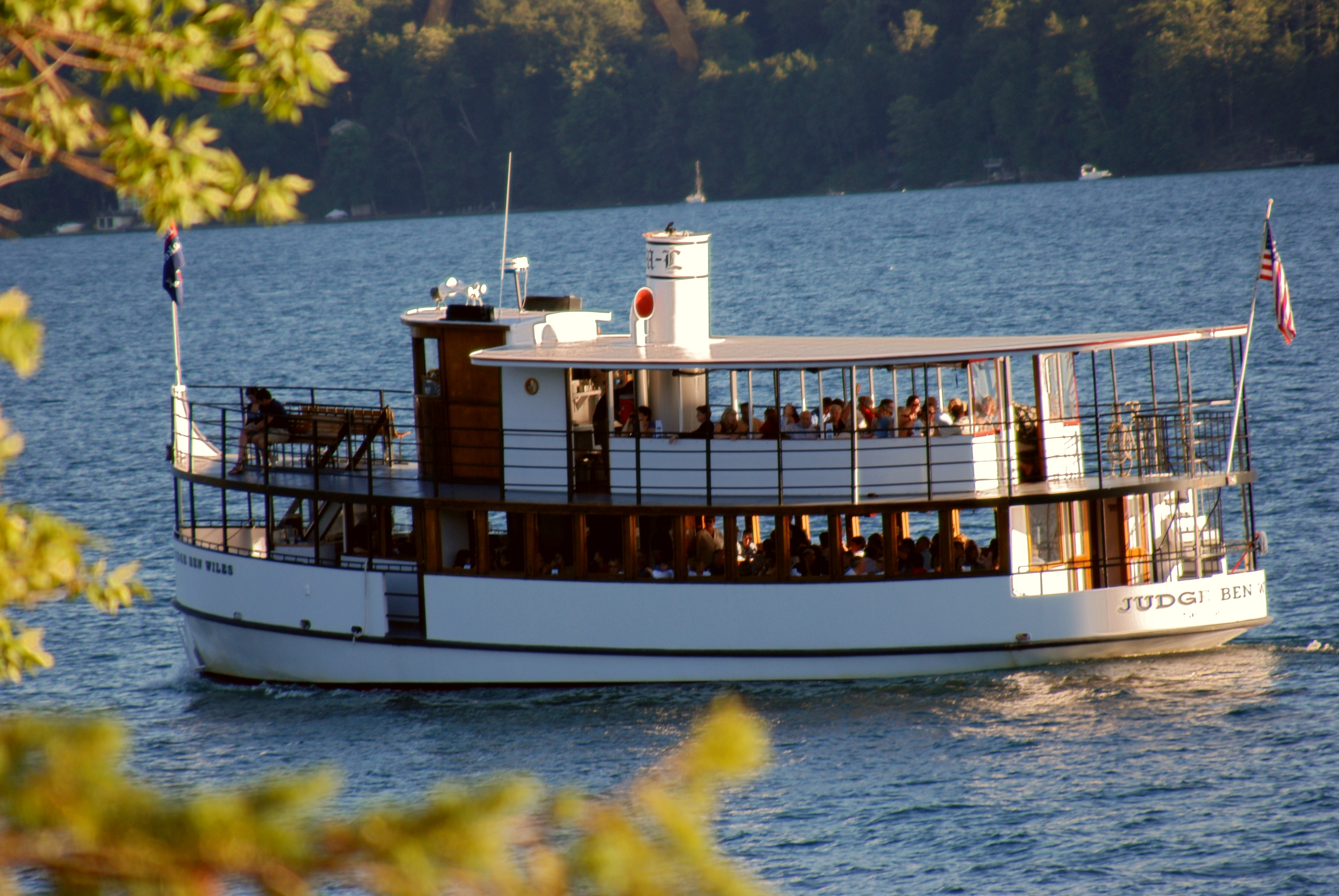 The Judge Ben Wiles heading south on Skaneateles Lake. Photo by Thomas J. Grant, Skaneateles, NY, USA.